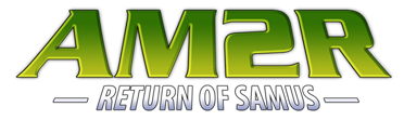 The logotype for "AM2R".